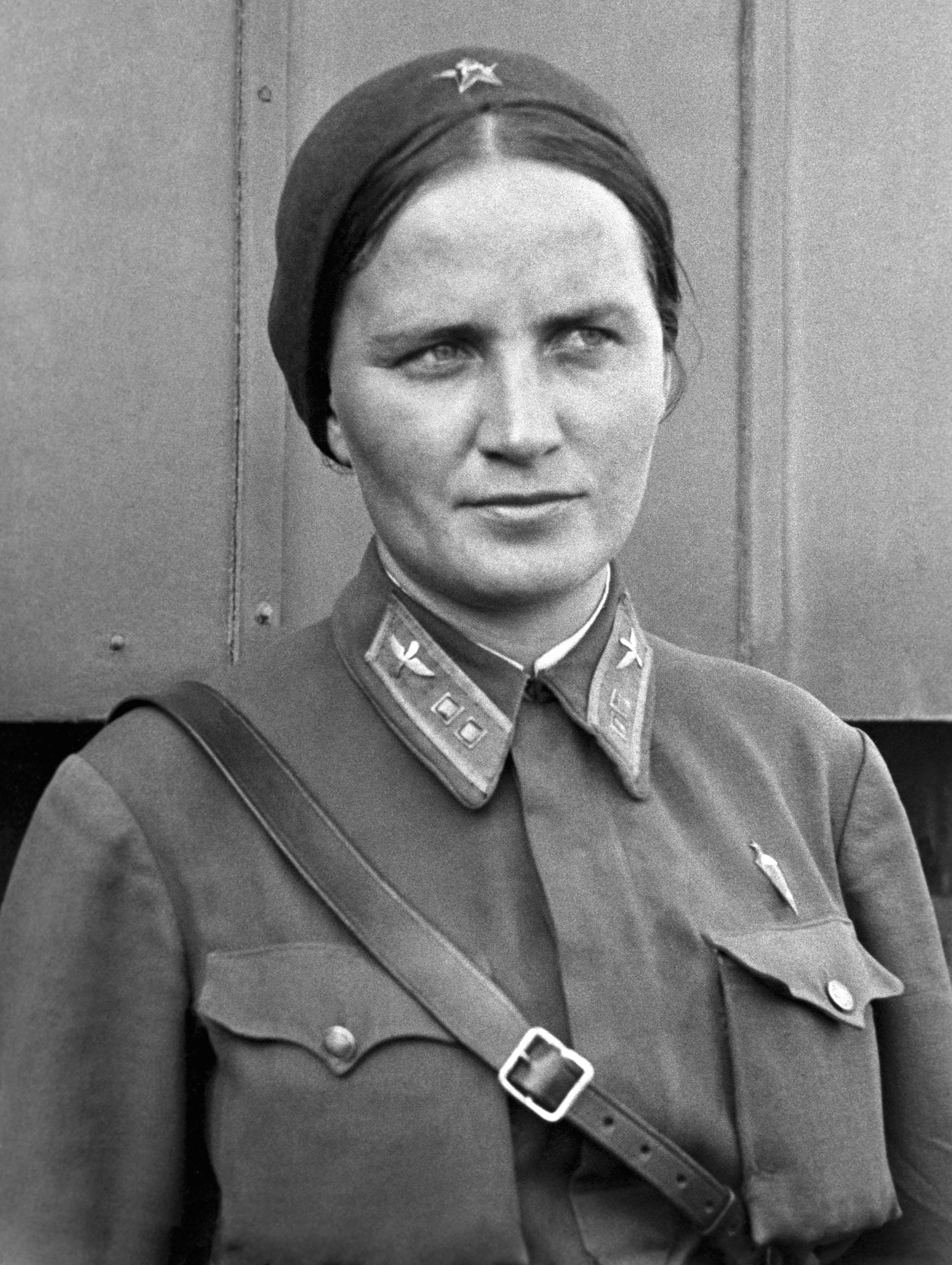 1938 photo of Marina Raskova, Hero of the Soviet Union and founder of the 46th Taman Guards Night Bomber Aviation Regiment.